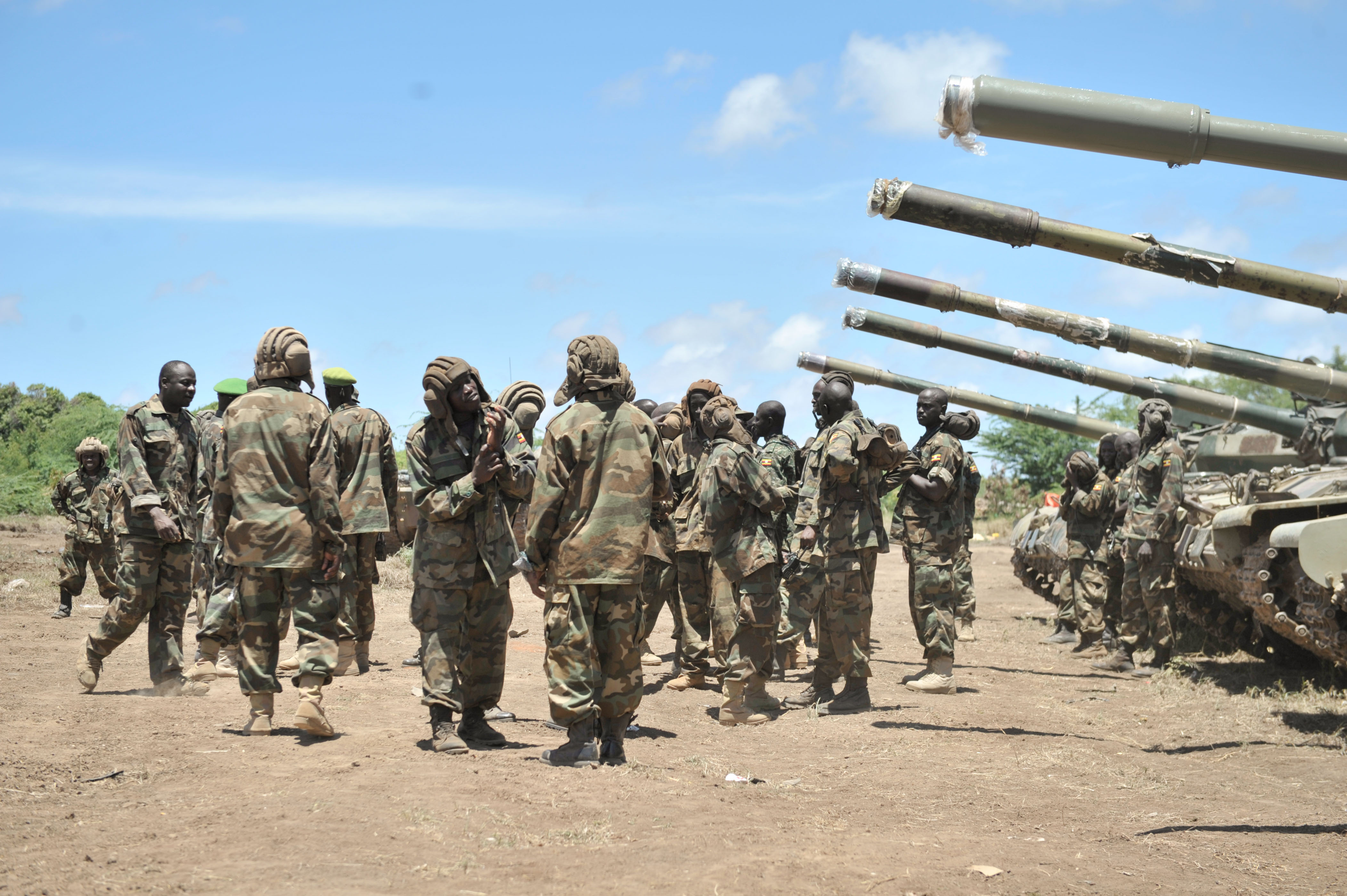 Ugandan soldiers, as part of the African Union Mission in Somalia, gather around their tanks on August 29, one day before the beginning of Operation Indian Ocean, which aims to liberate several towns off of the terrorist organization Al Shabab in the Lower Shabelle region of Somalia. AMISOM Photo / Tobin Jones